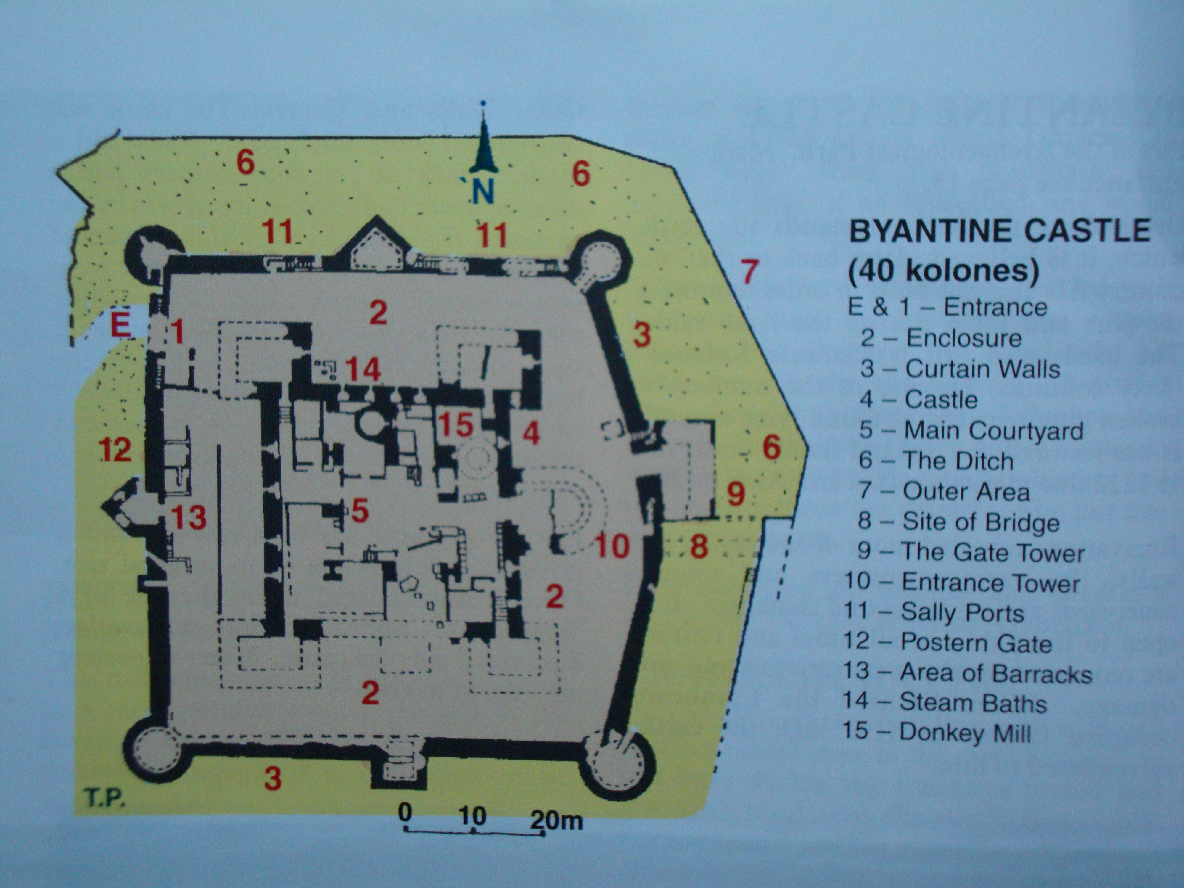 Plan of Saranda Kolones